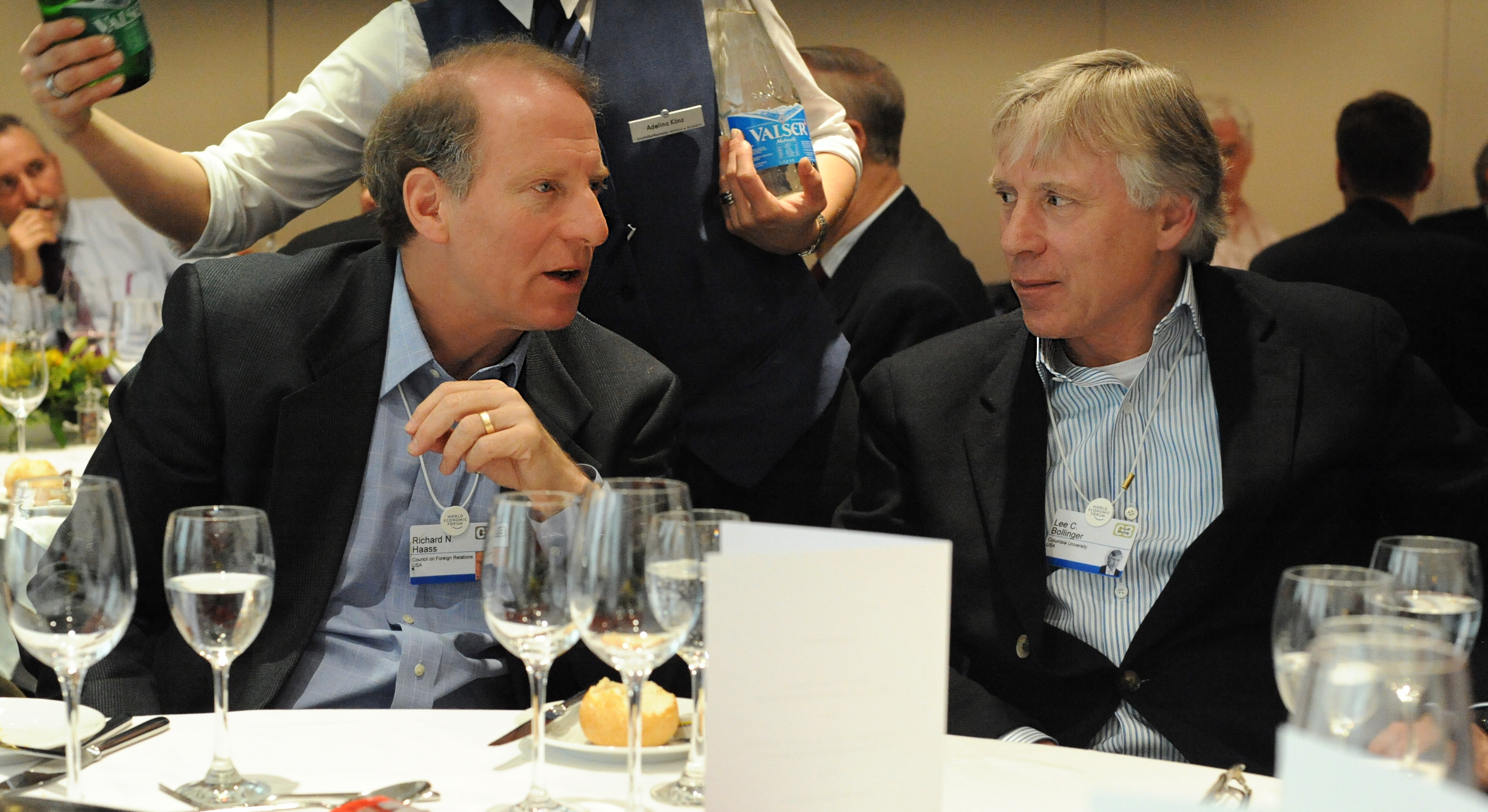 in 2008